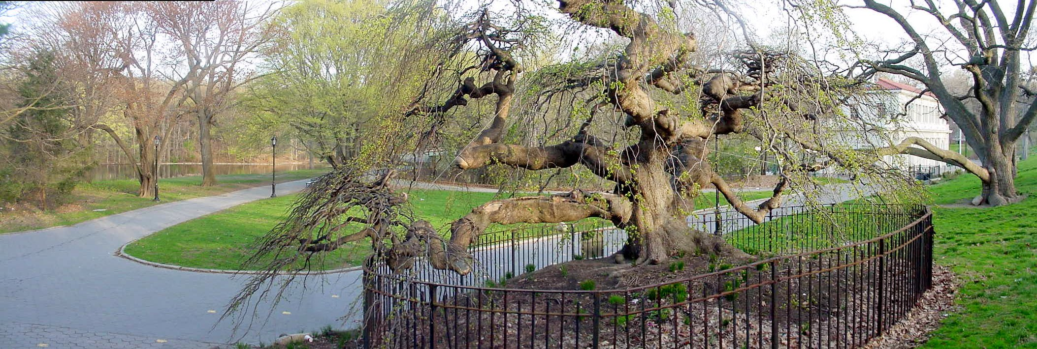 The Camperdown Elm of Prospect Park, Brooklyn, Looking north toward the Lullwater Bridge